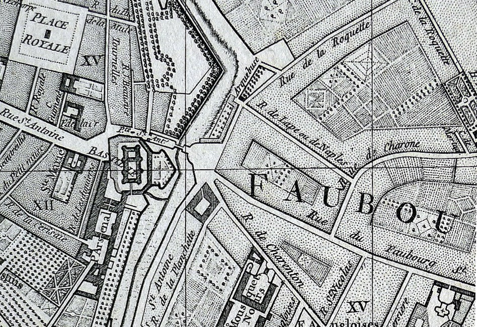 Vaugondy's map of Paris (Lappe street) - 1760